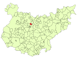 Don Álvaro, spanish municipality in the province of Badajoz, Extremadura.